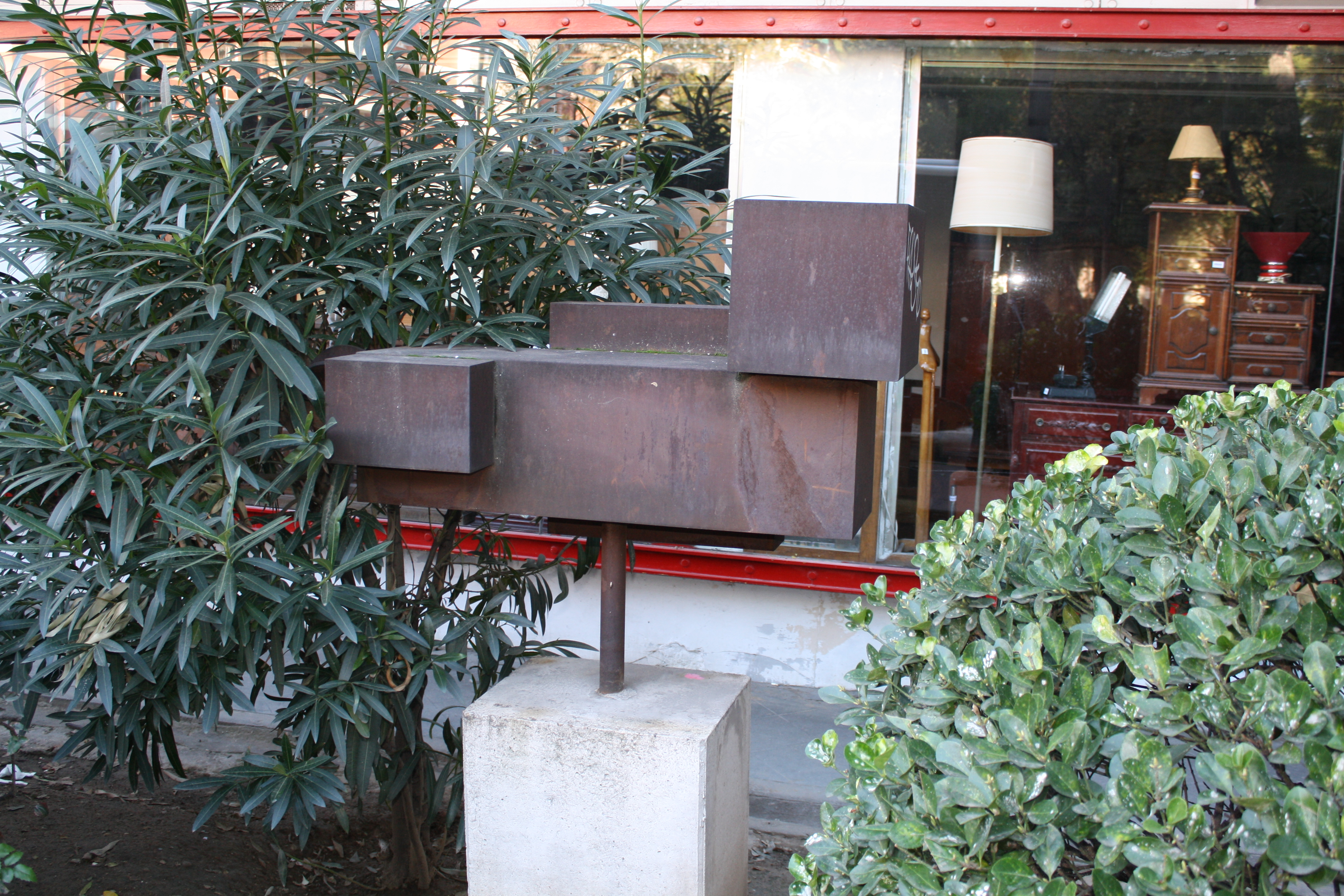 Nassio Bayarri sculpture at the Museum of Outdoor Sculpture of Alcala de Henares (Community of Madrid - Spain).